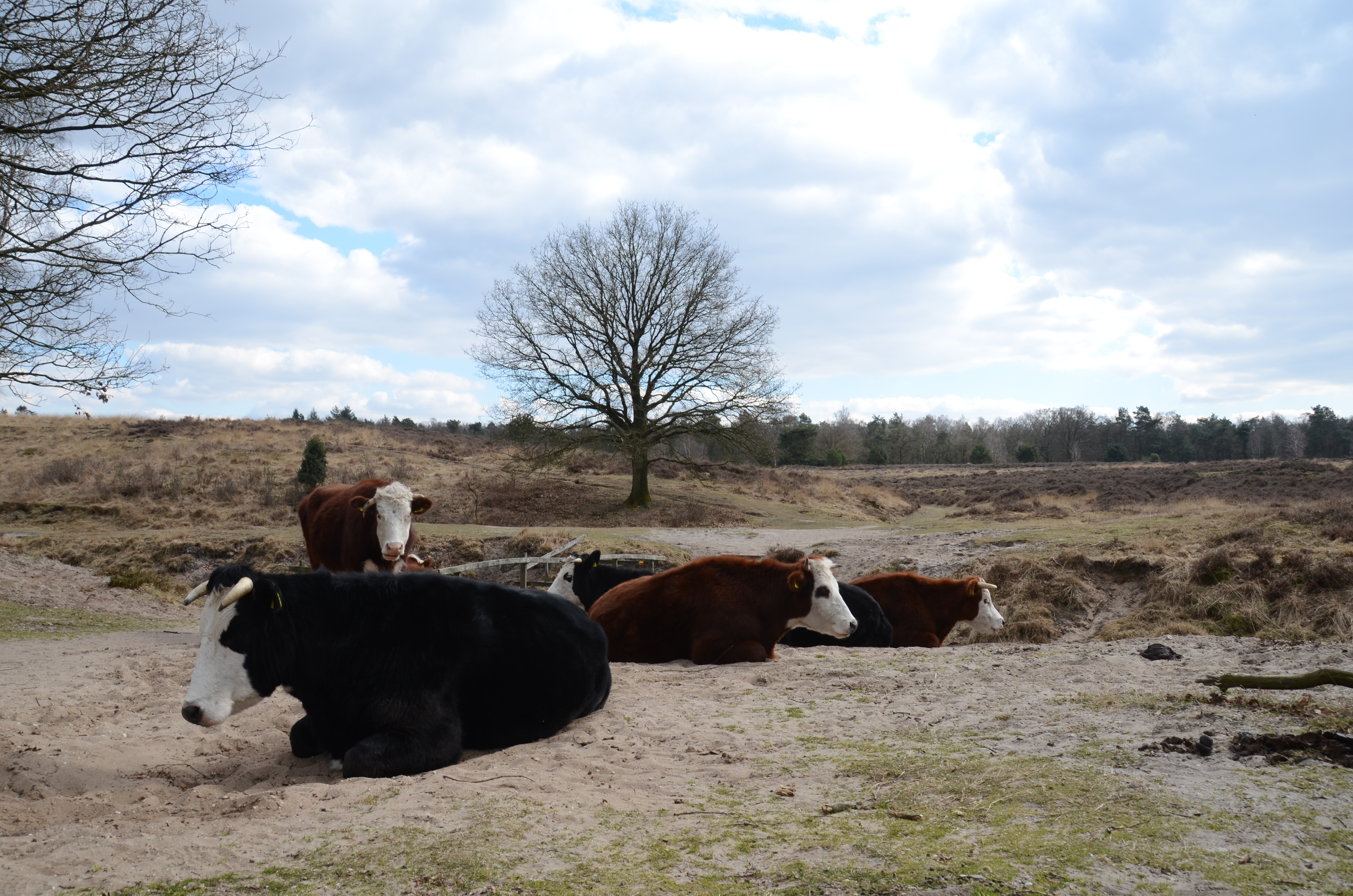 Cows at the Doorwerth heather Park, to keep the vegetation short and to give the heather possibilities to grow!